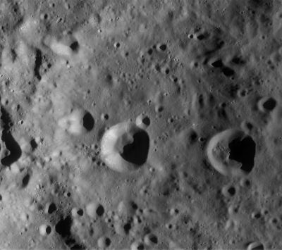 LROC WAC mosaic (No.s M130788958ME and M130795723ME).